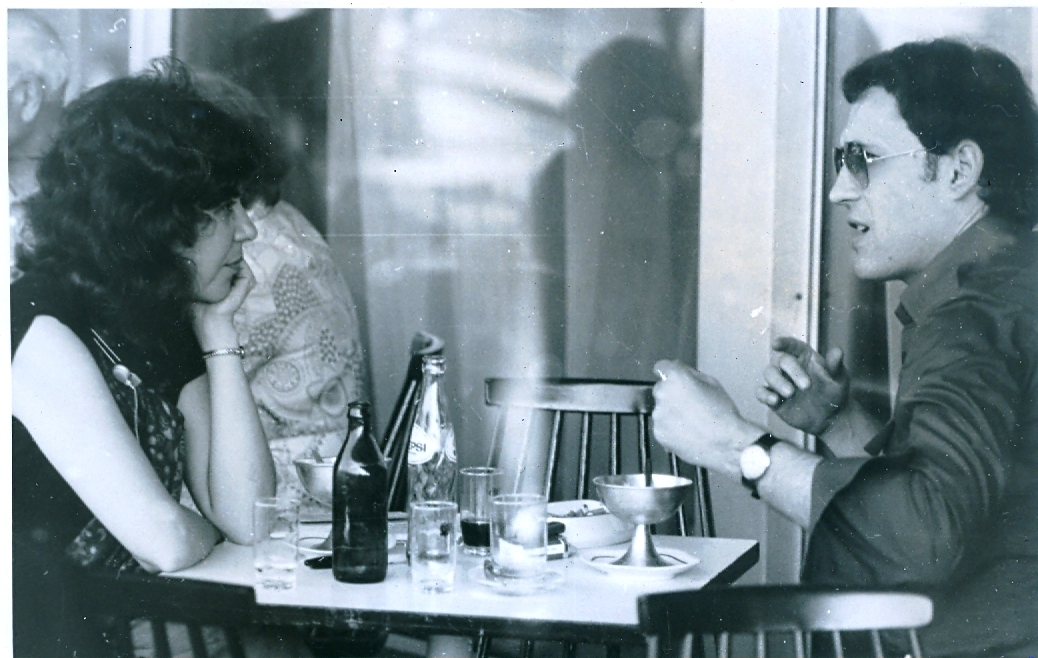 Ranko Munitić (1943-2009), right, with Caroline Leaf 1979